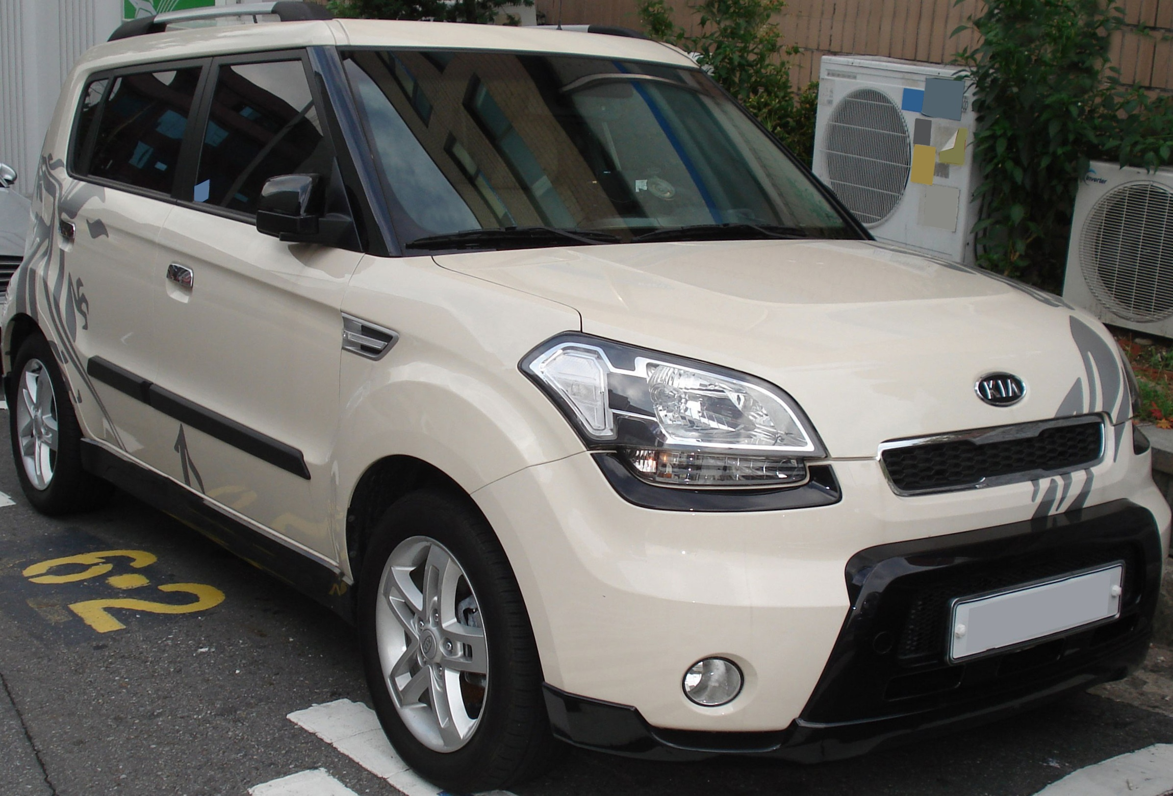 Kia Soul